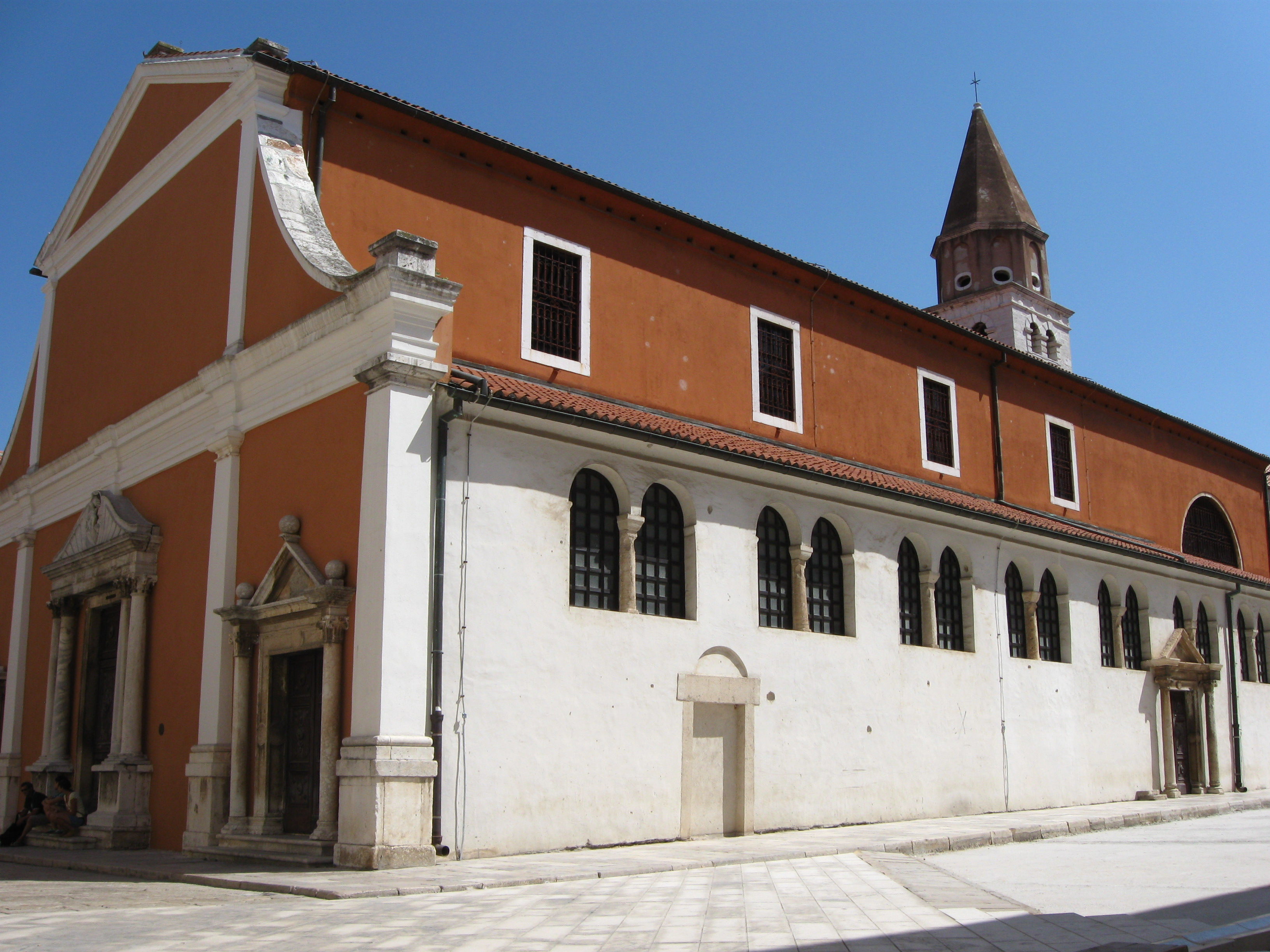 Church of St. Simon in Zadar